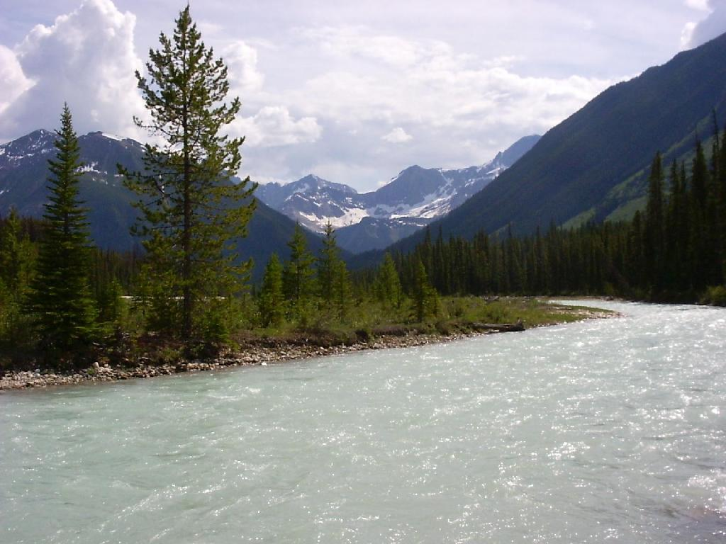 Vermilion River, found in Kootenay National Park, British Columbia, Canada.